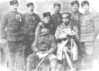 IMARO revolutionary/ies